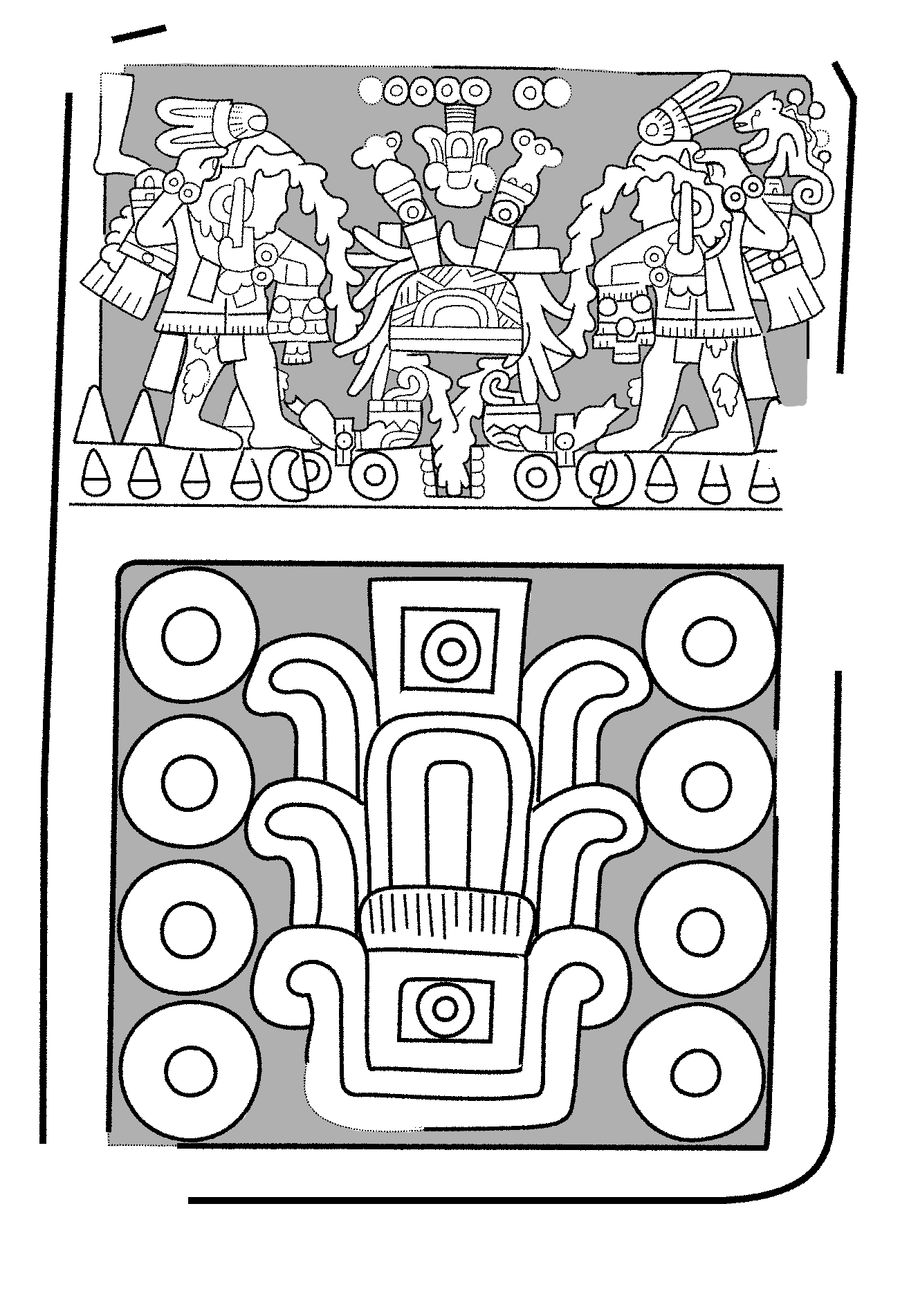 Rendering by Zach Lindsey from a photo by Jorge Pérez de Lara.